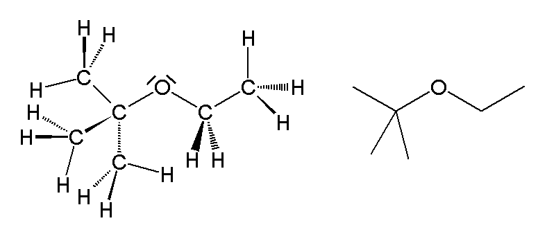 Two representations of the ethyl tertiary-butyl ether structure